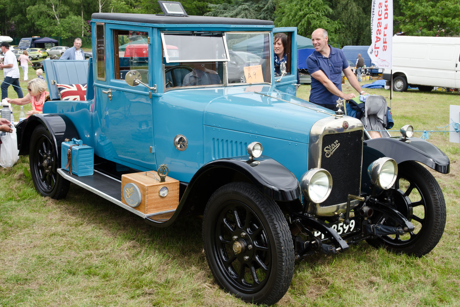 Star 14-40 Columbia Doctor's Coupé 1927 body by Hoyalfirst registered 24 March 1927, 2121cc Trentham Gardens Classic Car Show 16/06/2013